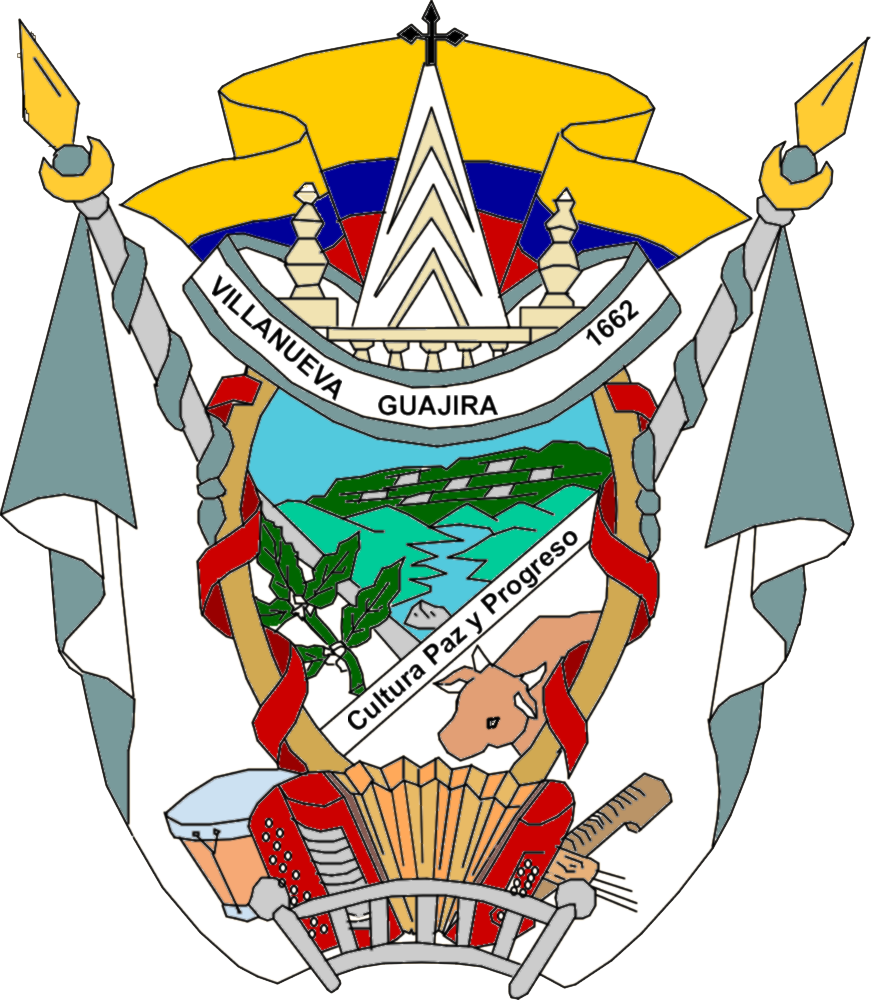 Seal of Villanueva, La Guajira (Colombia).